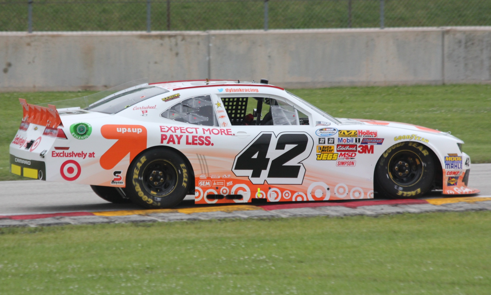 The passenger side of Dylan Kwasniewski Nationwide car during the 2014 Gardner Denver 200 at Road America. Taken racing in turn 13.